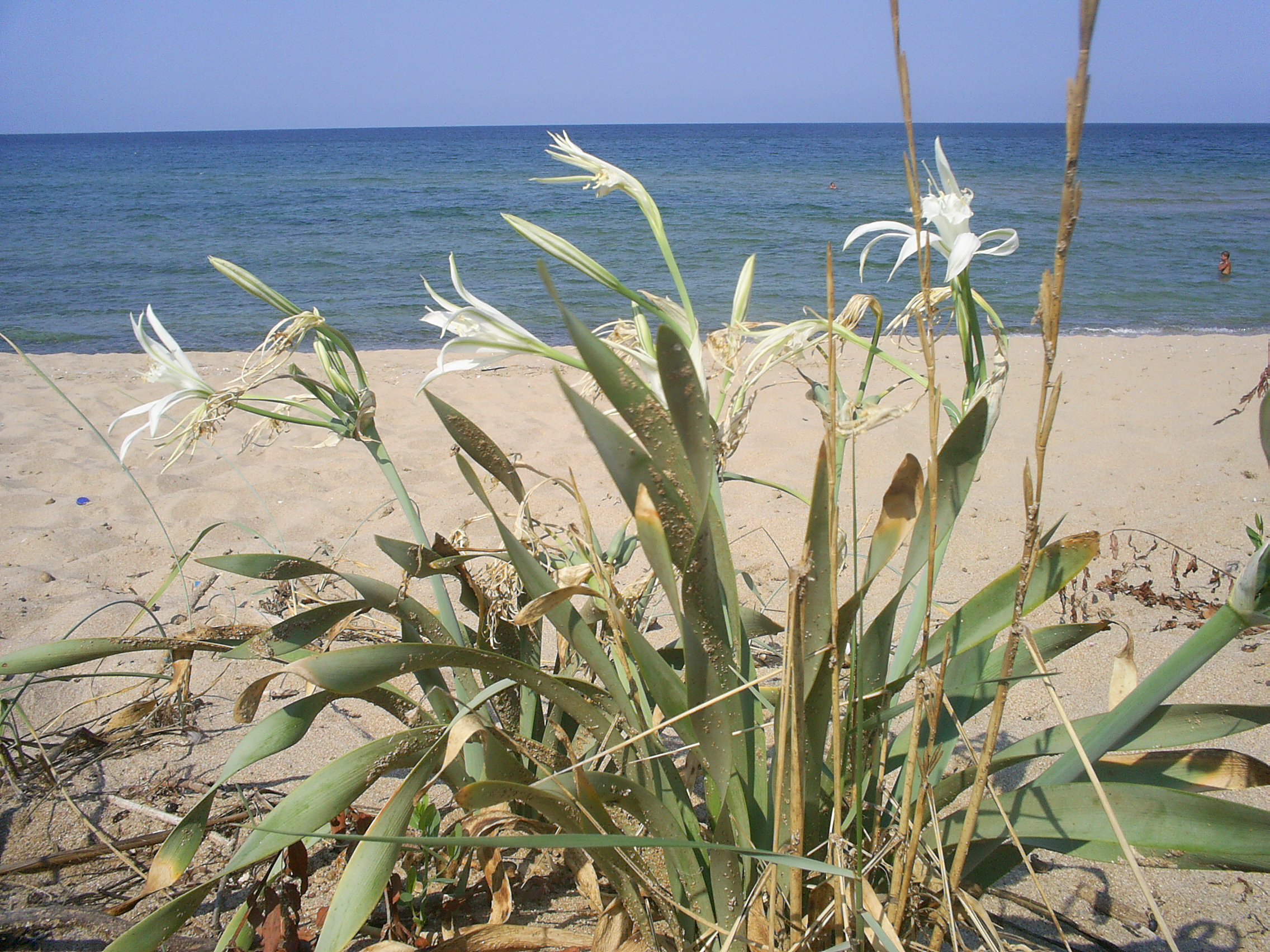 Sea lily (Pancratium maritimum) in Arkutino reserve, Primorsko municipality, Bulgaria